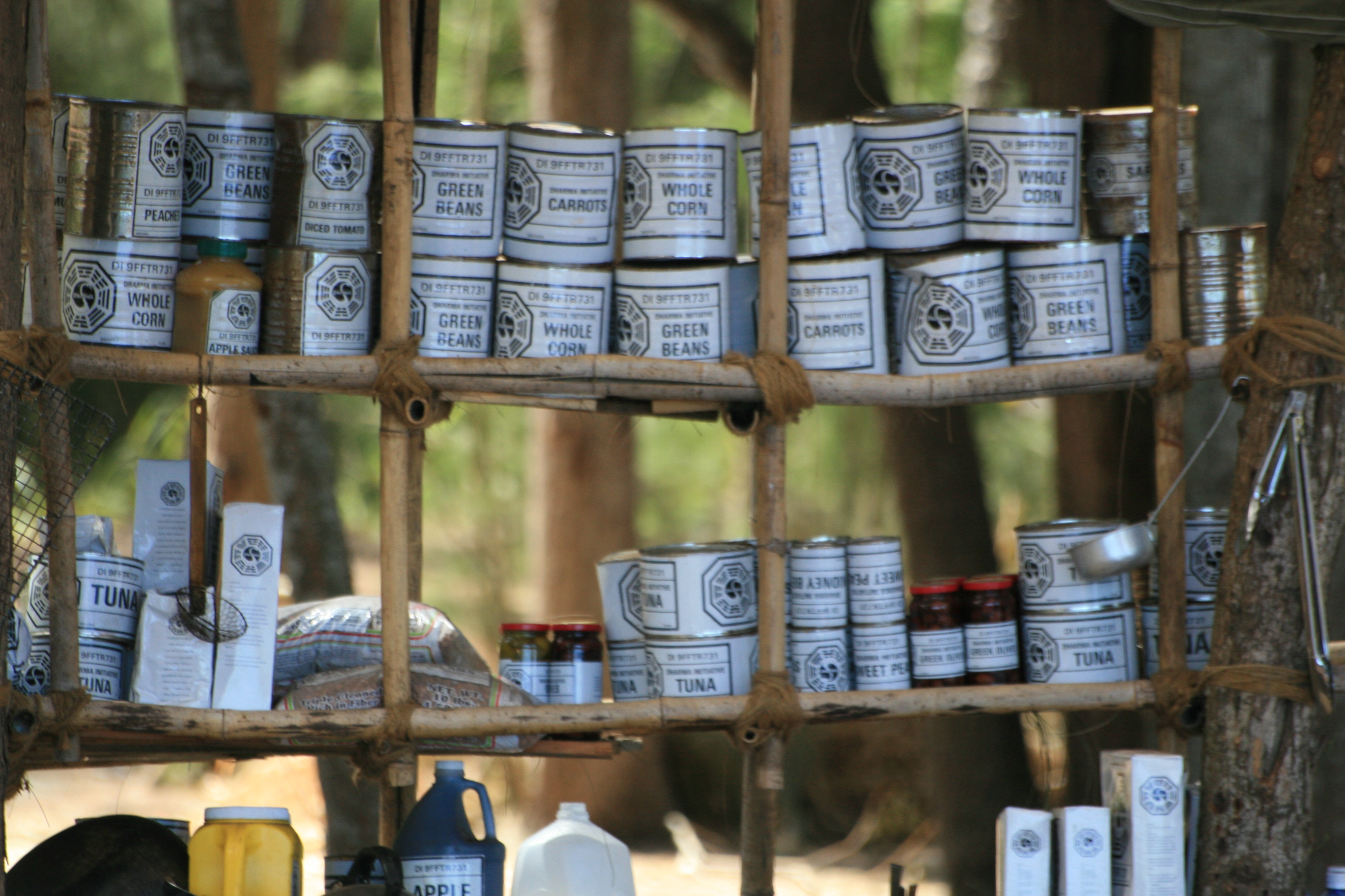 DHARMA food at the lost set